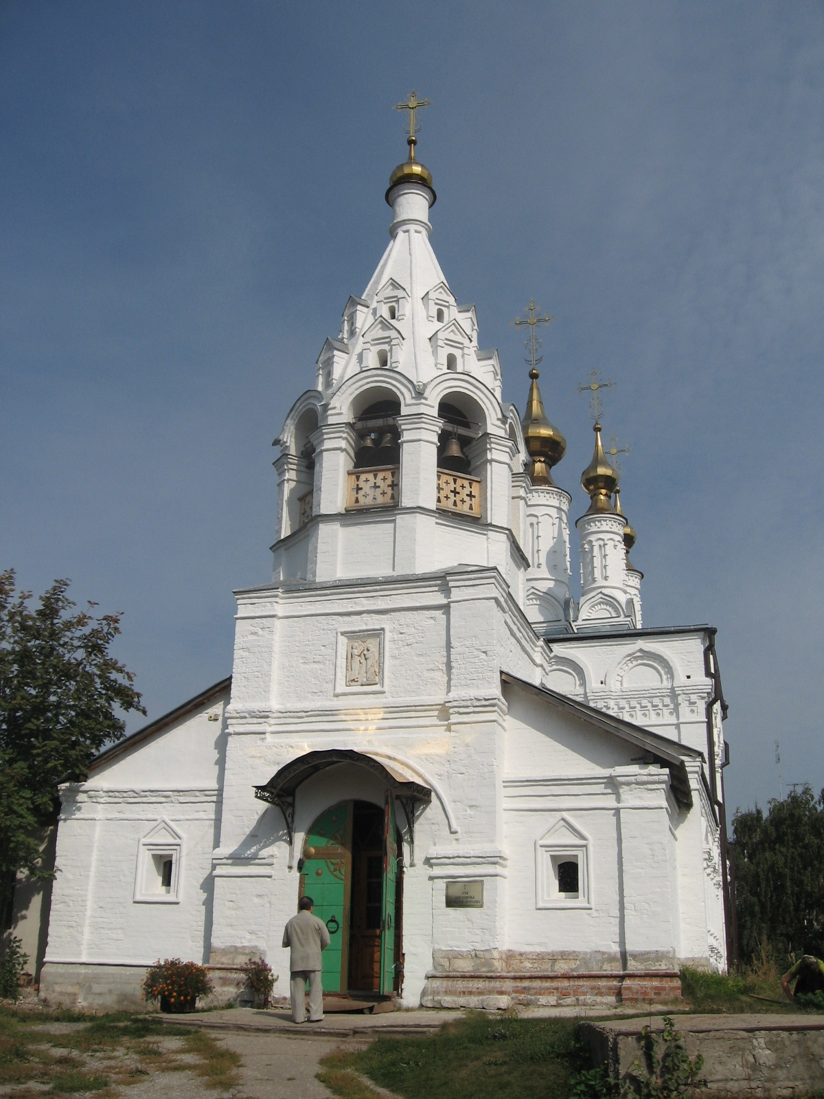 Church of Annunciation of Virgin Mary (Ryazan, XVII century)